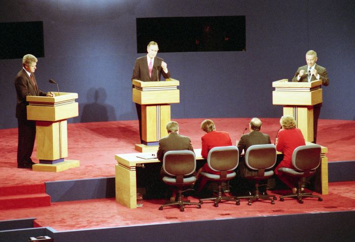 President Bush participates in the third and final Presidential Debate with Governor Bill Clinton and Ross Perot at the Wharton Center, Michigan State University in East Lansing, Michigan with Jim Lehrer, MacNeil-Lehrer News Hour is the debate moderator.